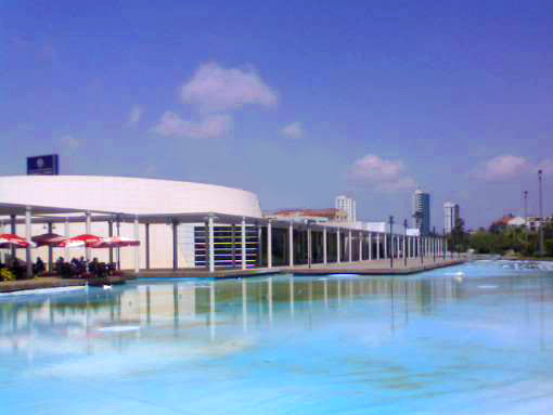 Congress and Culture Center in Atatürk Park.